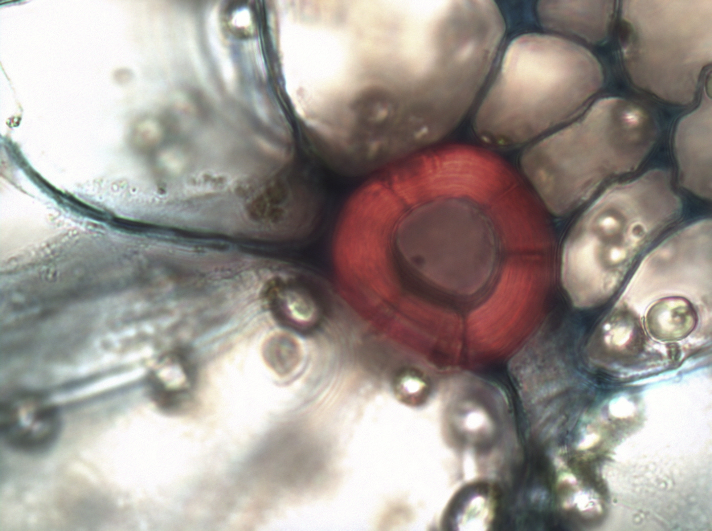 Sclerenchyma fiber in the parenchyma of Begonia petiole, safranin stained